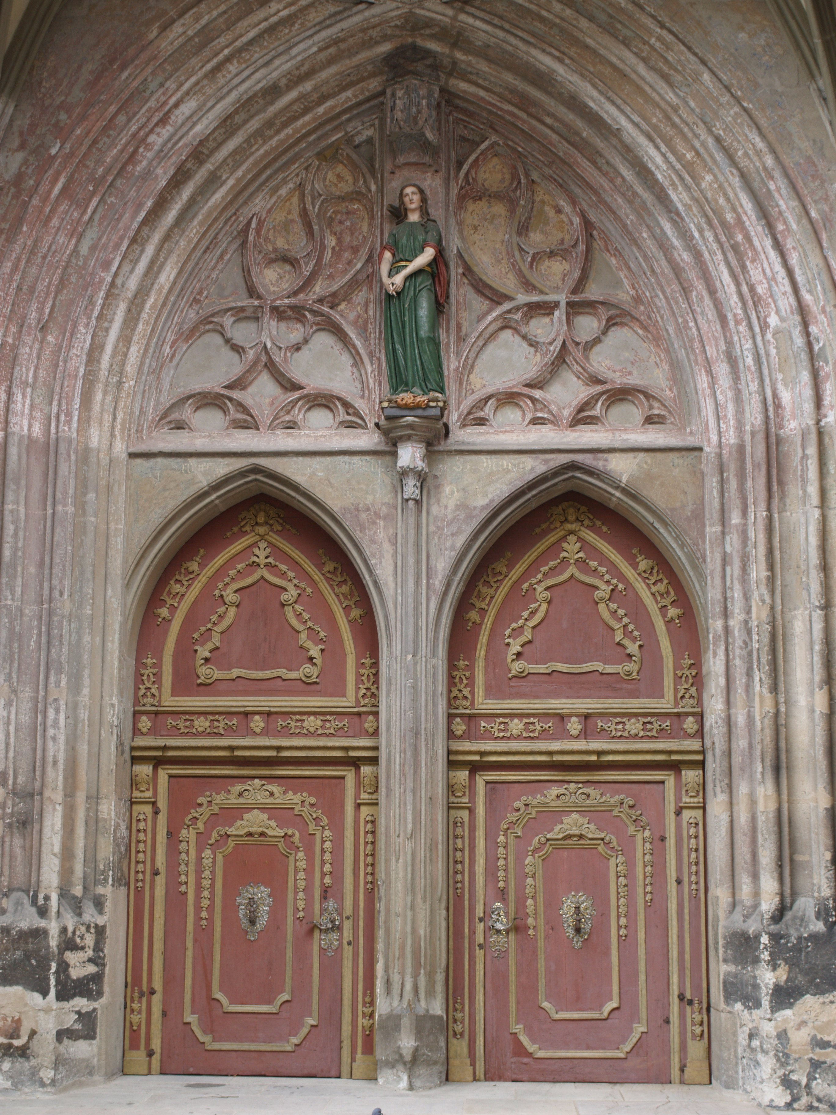 exterior view St. Georg Dinkelsbühl Brautportal